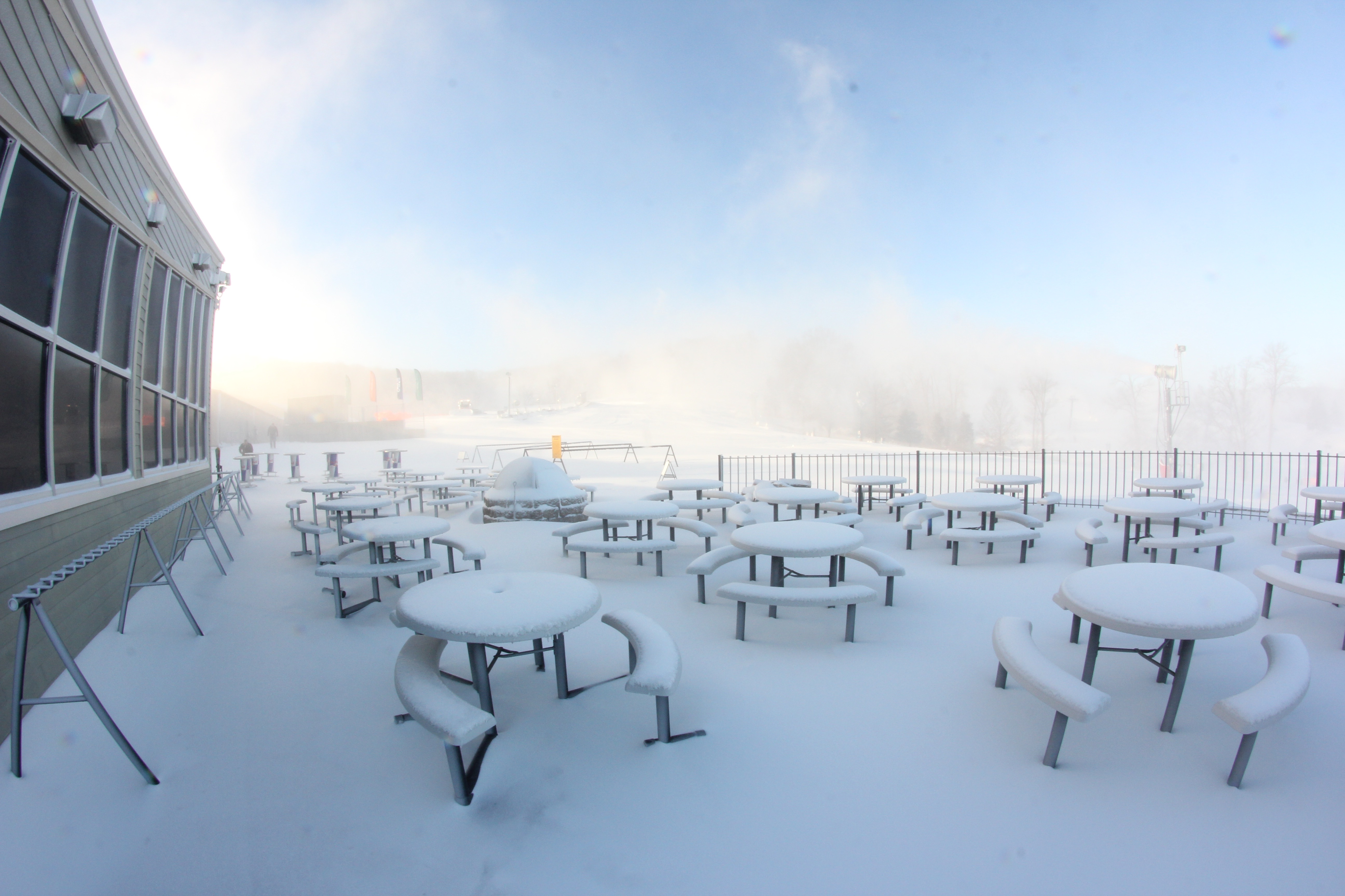 Hidden Valley Ski Area outdoor seating on patio after fresh snowfall